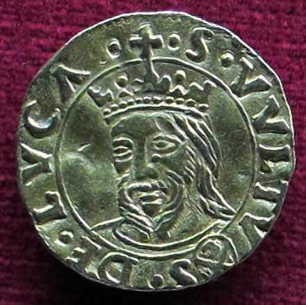 Coin exhibition in Prato (Italy), 2012